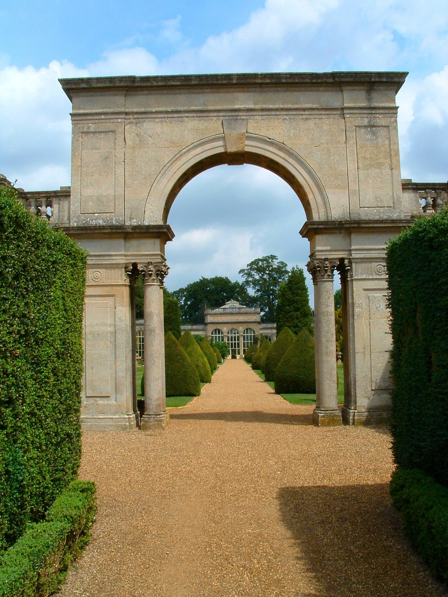 Formal Garden Castle Ashby - showing the Orangery in the background.